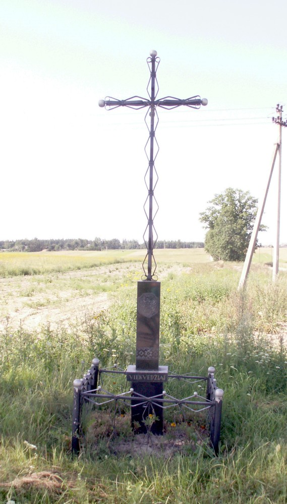 Viekvedžiai, Šiauliai district, Lithuania